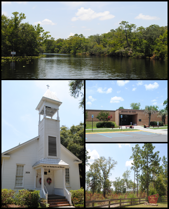 A collection of photos I took around Middleburg, Florida.